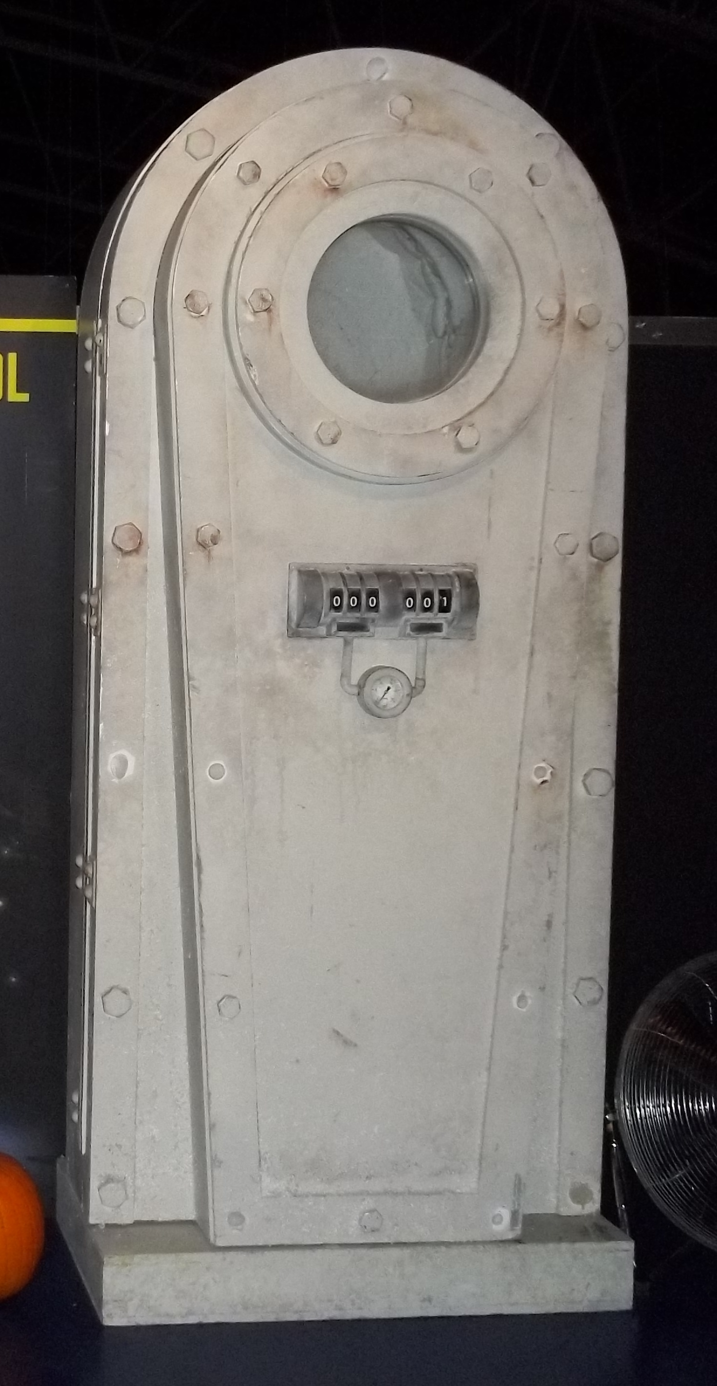 A Christmas Carol Doctor Who Experience